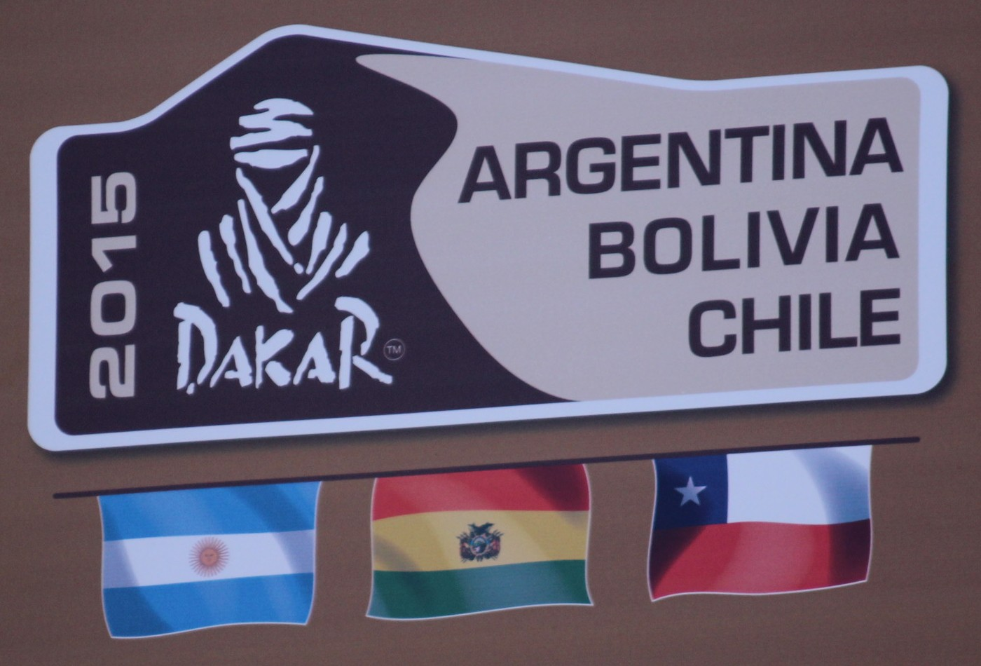 Logo Rally Dakar 2015